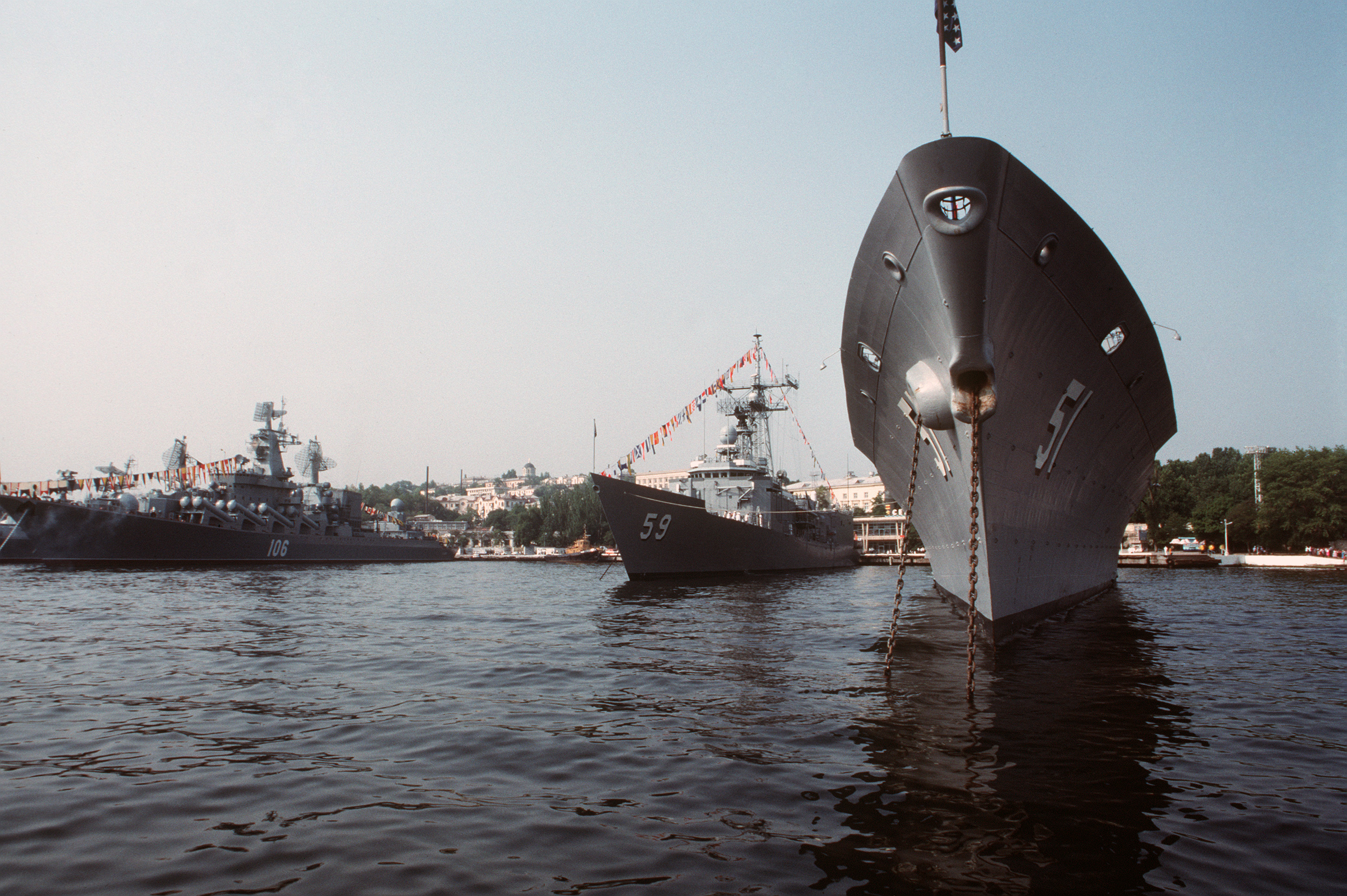 The Aegis guided missile cruiser USS THOMAS S. GATES (CG 51) and the guided missile frigate USS KAUFFMAN (FFG 59) ride at anchor in the harbor. To their left is the Soviet guided missile cruisers SLAVA, with other Soviet warships behind it. The Americans are making the second goodwill visit to a Soviet port by US naval vessels since World War II. Location: SEVASTOPOL Date Posted: unknown VIRIN: DN-ST-89-10322